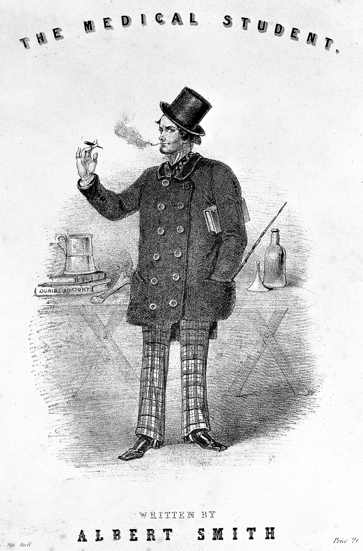 A medical student, smoking, with a tankard and Quain's Anatomy on the table. Wellcome Images Keywords: songs, medical; students, medical: 19th century; Albert Smith